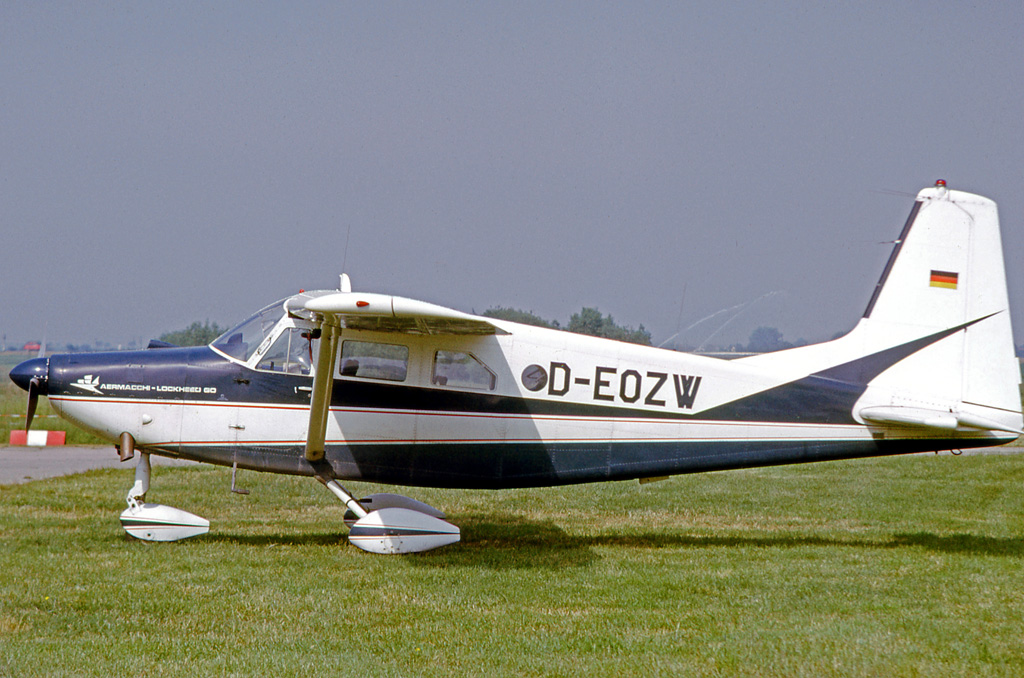 Aermacchi AL-60B-2 D-EOZW registered in Germany and operational in 1975.